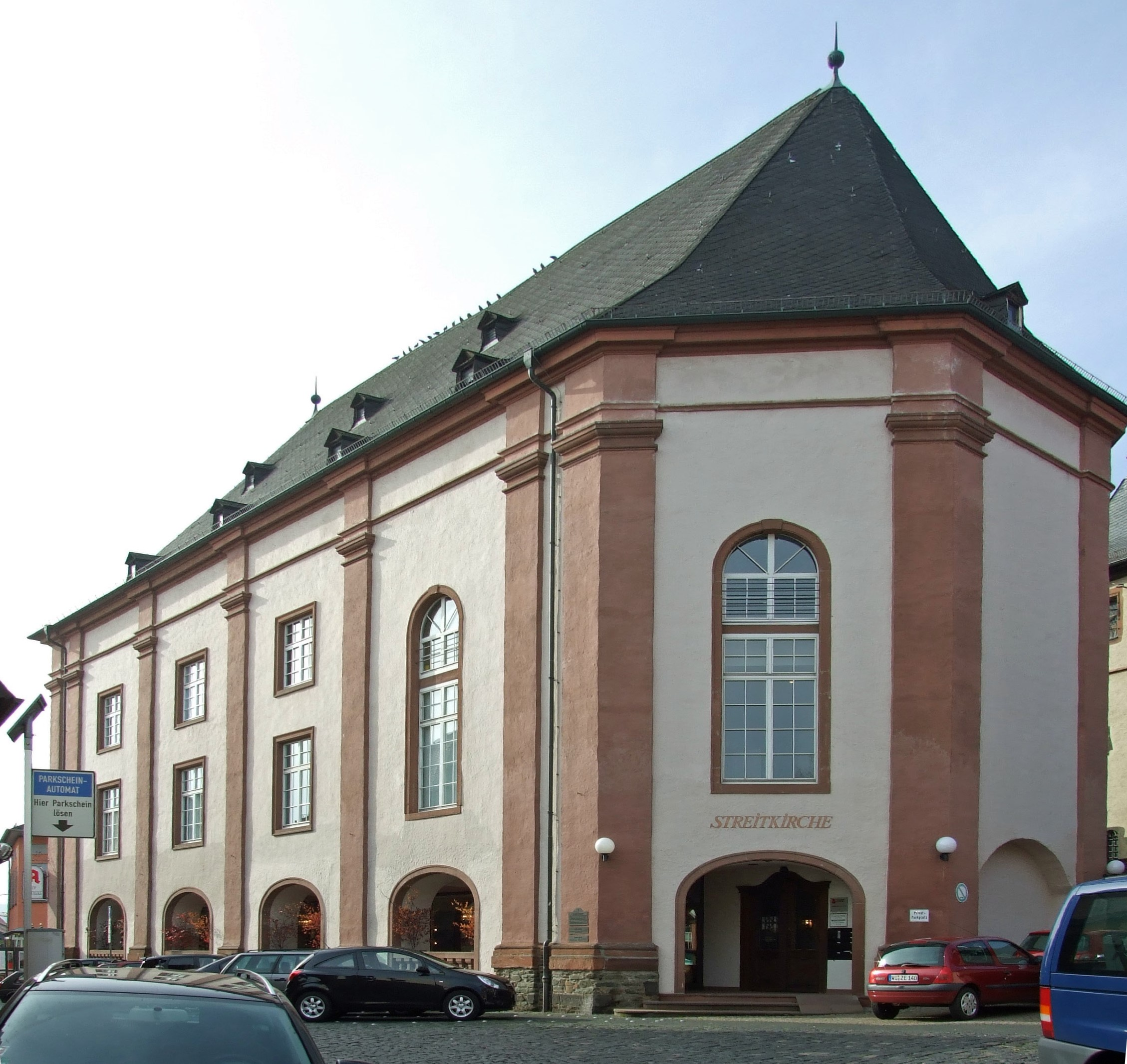 Streitkirche (Quarrel-Church) in Kronberg im Taunus, Germany